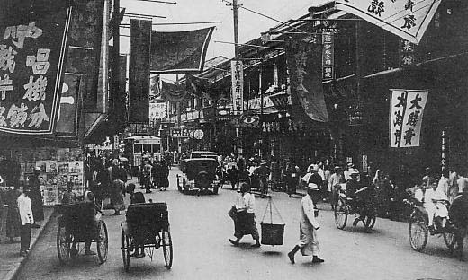 Foochow Road (Shanghai)